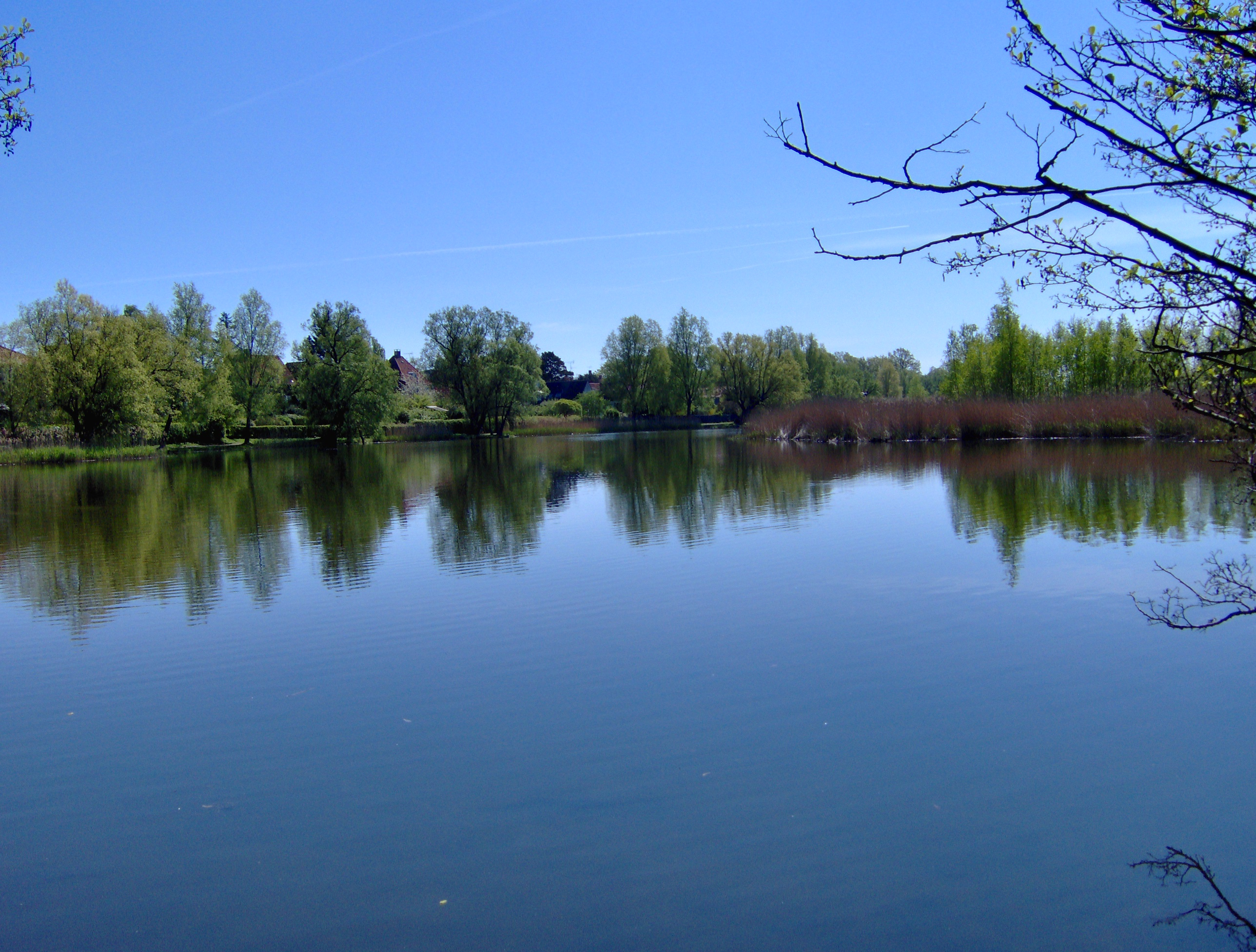 The Gentofte Lake seen from its northern end